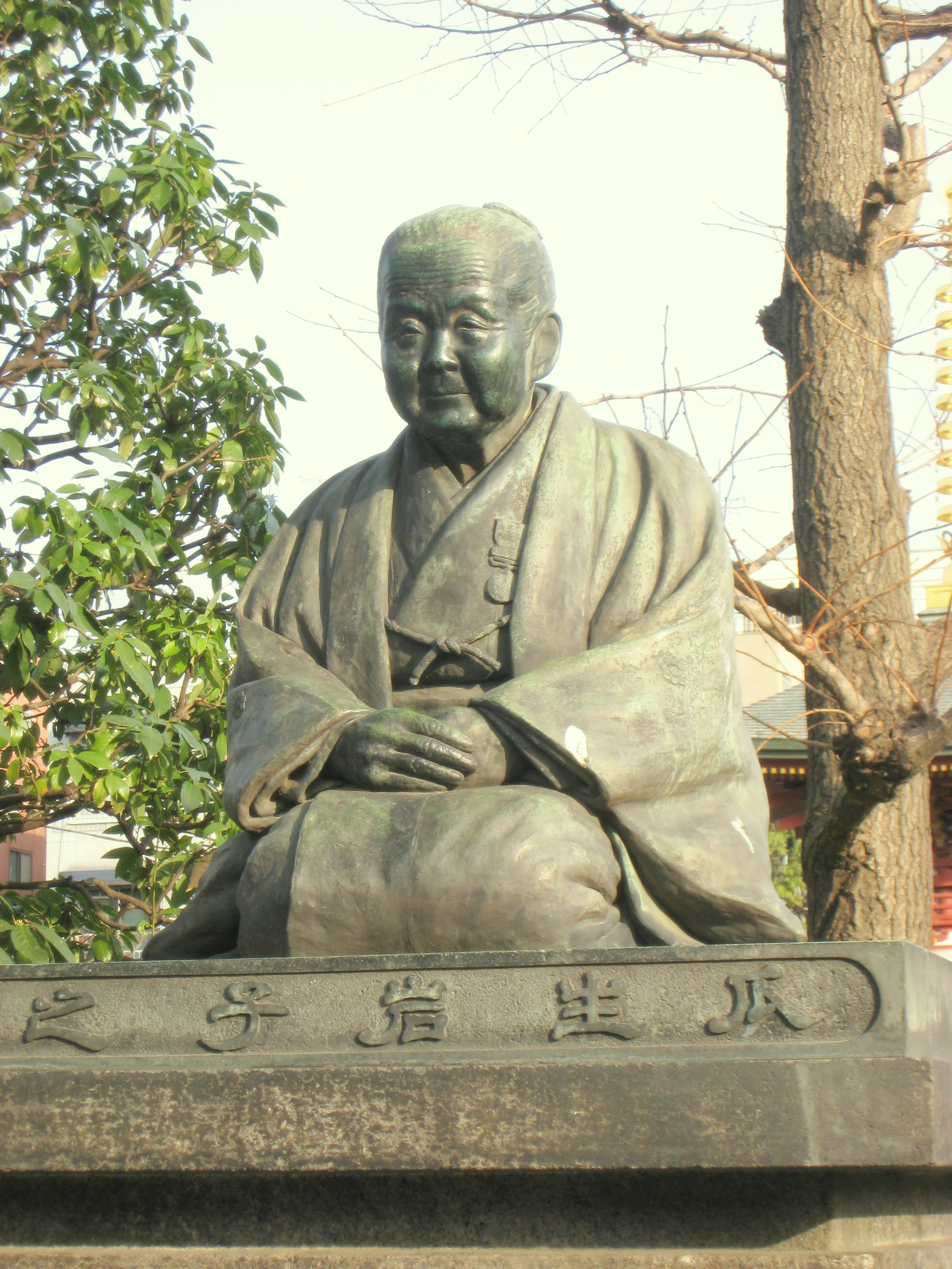 Statue of Uryu Iwako, Sensoji Temple grounds, Asakusa, Tokyo, Japan. This statue is old enough so that copyright restrictions (if any) have expired.